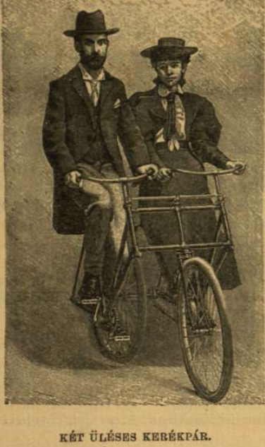 Bicycle